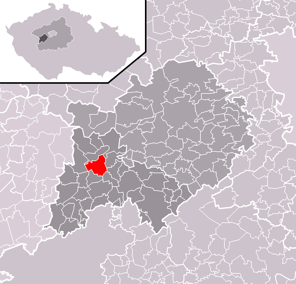 Location of Žebrák town within Beroun District and administrative area of Hořovice as a Municipality with Extended Competence.